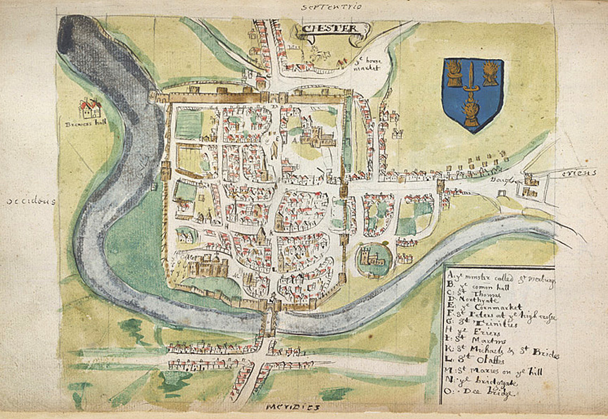 Plan of Chester by William Smith. Published in The Particuler Description of England. With the portratures of certaine of the cheiffest citties & townes (1588)